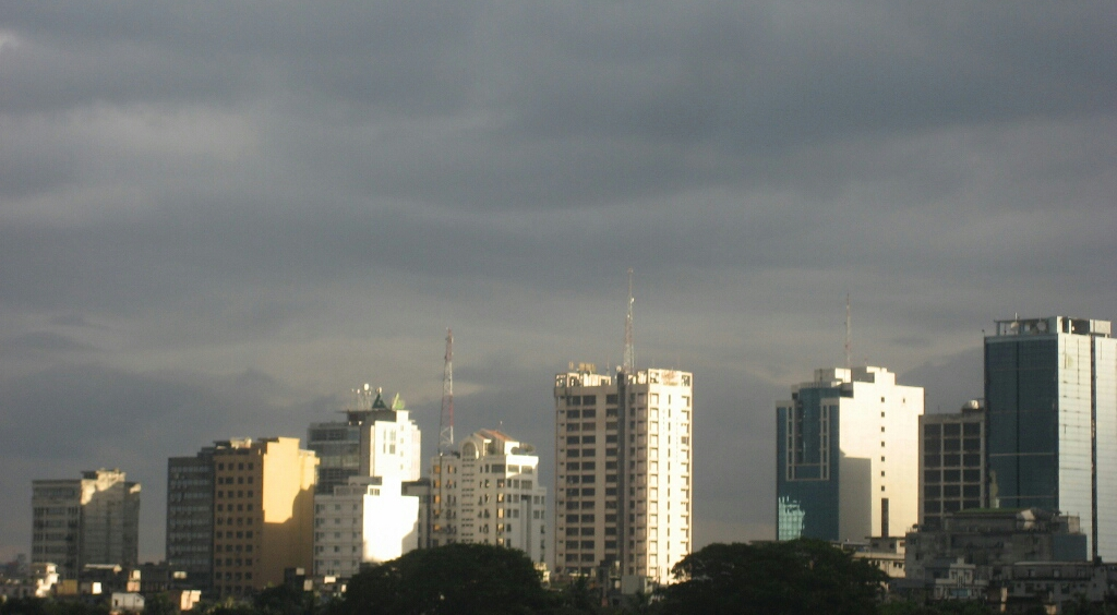 This is a good view of city of Dhaka.